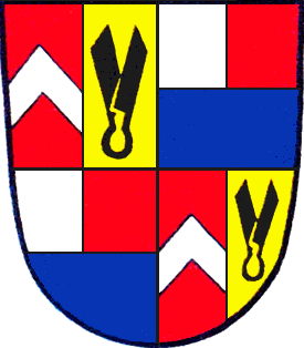 Coat of Arms of Rauenstein